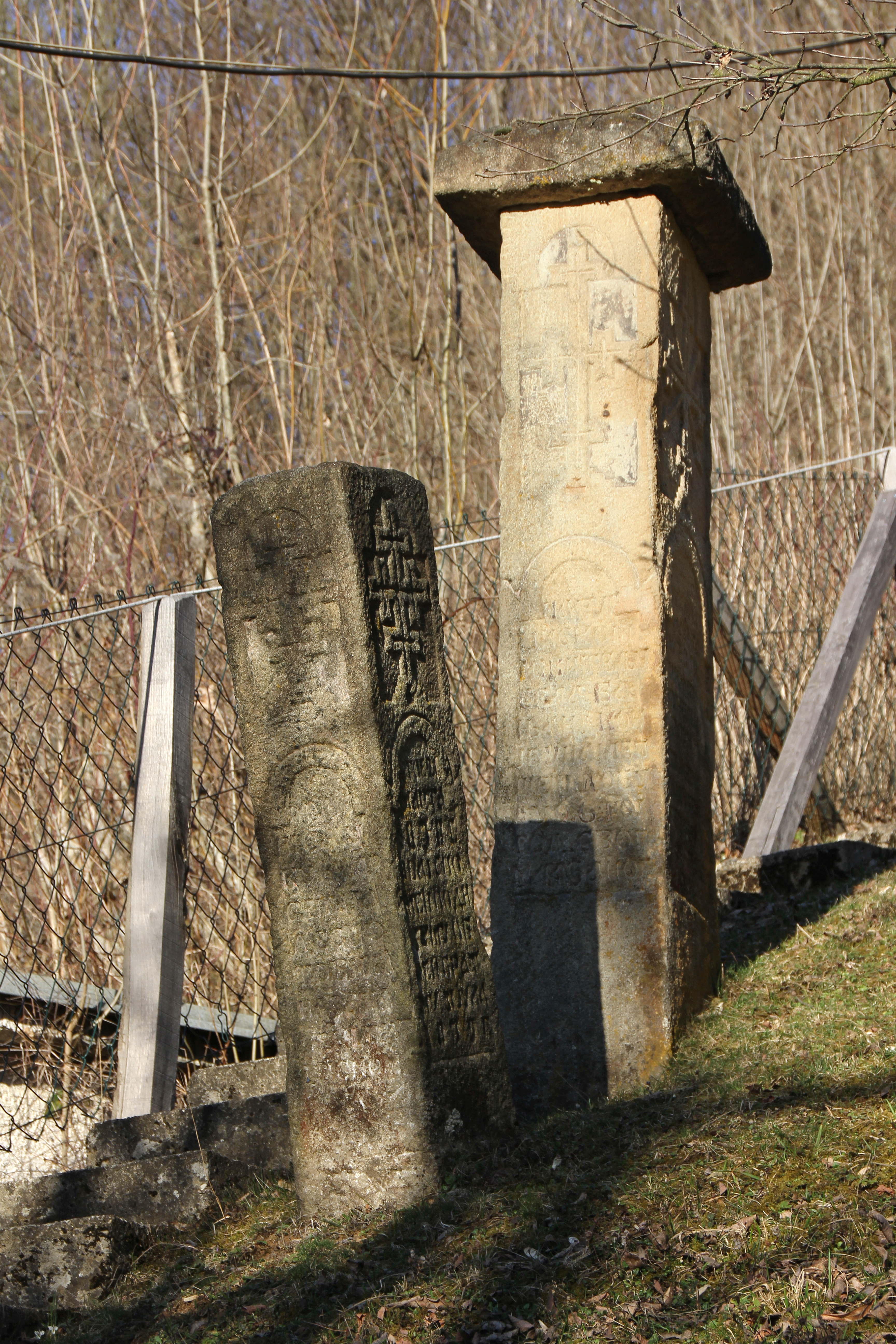 Roadside tombstones erected in memory of Arsenije Despotovic and Andrija Stevanovic, soldiers that were killed in the Serbo-Turkish War (1876-78). They are located in the village Gornji Banjani (municipality of Gornji Milanovac), Serbia.